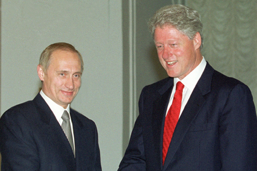 THE KREMLIN, MOSCOW. President Vladimir Putin with US President Bill Clinton.